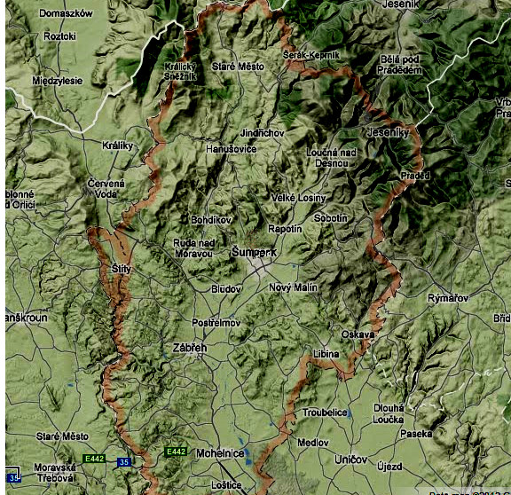 Šumperk District Physical Map